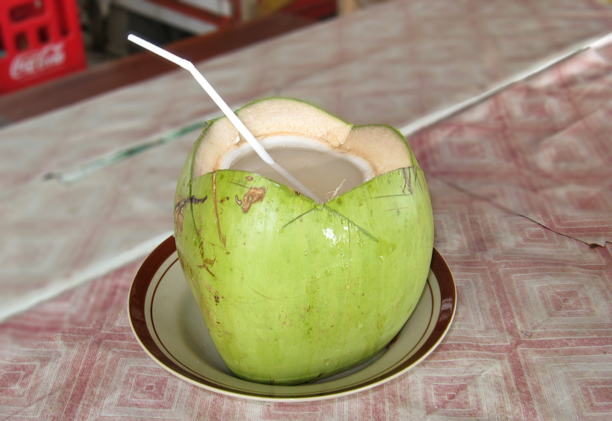 A coconut split open to drink in Pangandaran